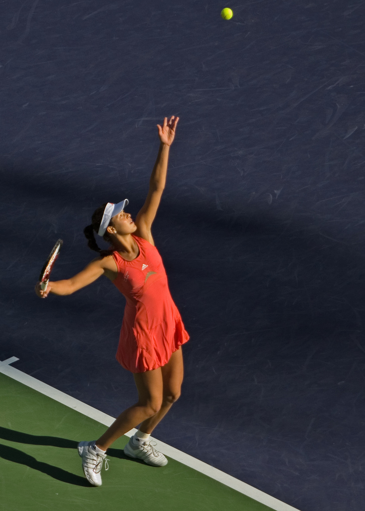 Ana Ivanovic serving against Ioana Olaru at the Indian Wells tournament in 2008.